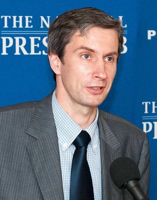 Algirdas Paleckis at the National Press Club Newsmaker on June 7, 2012. Photo by Noel St. John, licensed under the Creative Commons license.